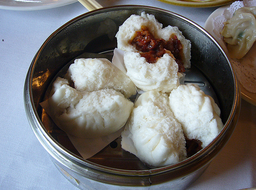 Cantonese dim sum roast pork bun